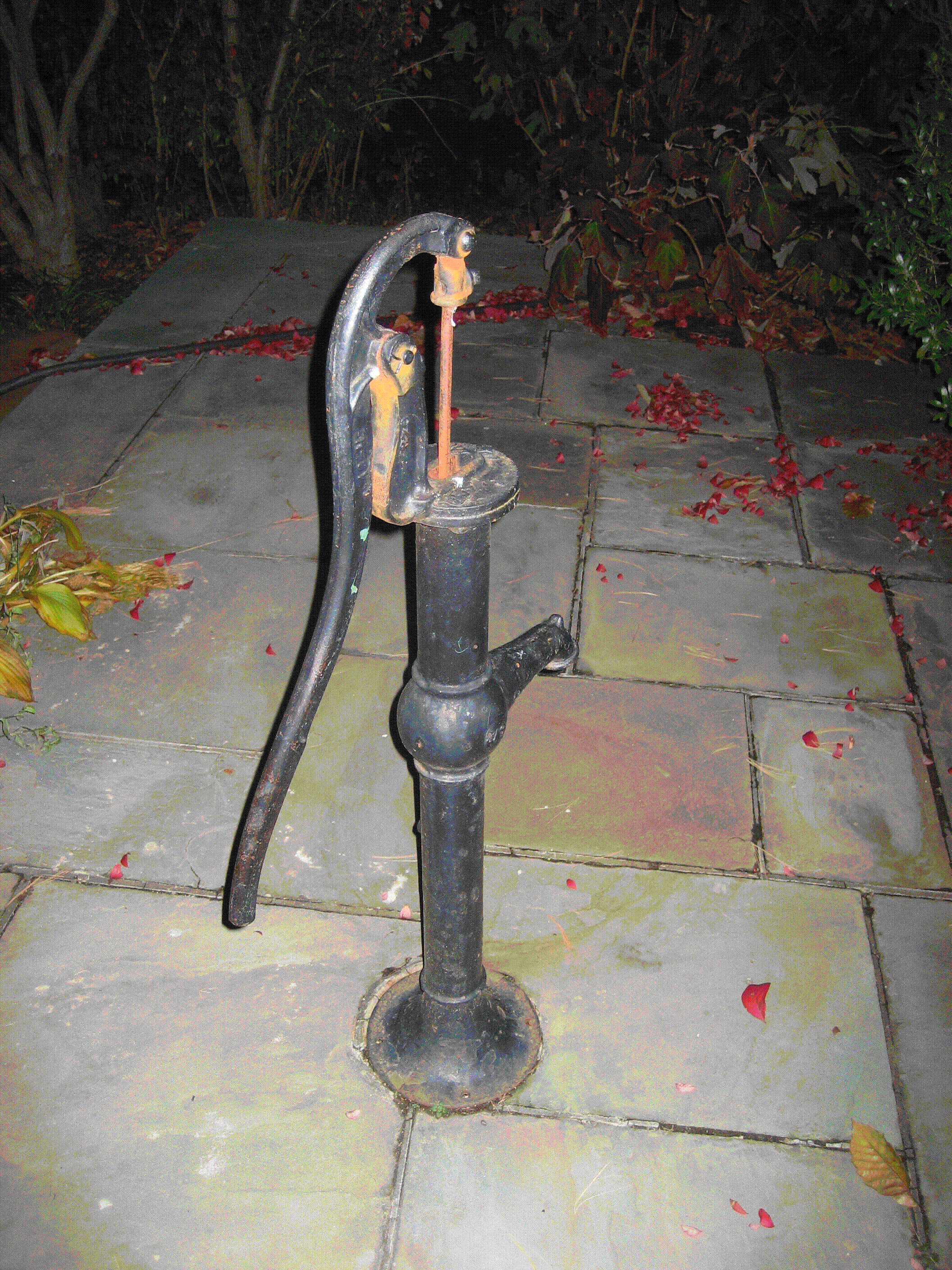 Piston Water Pump — at Garretson Forge and Farm museum.